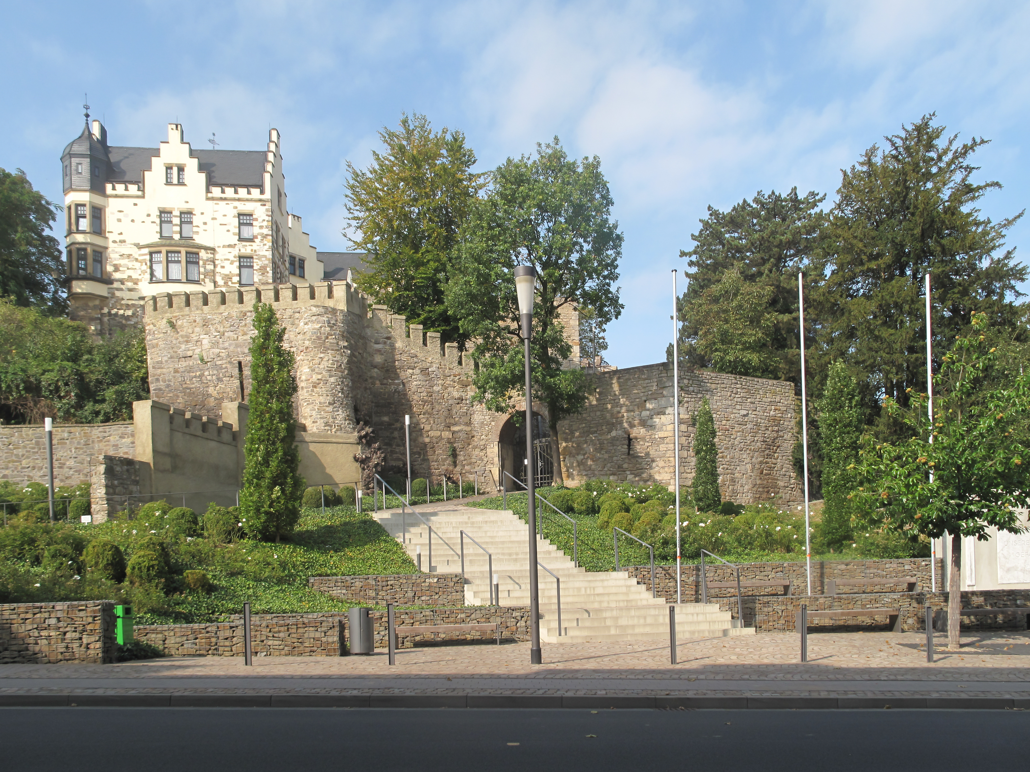 Herzogenrath, castle: Burg Rode